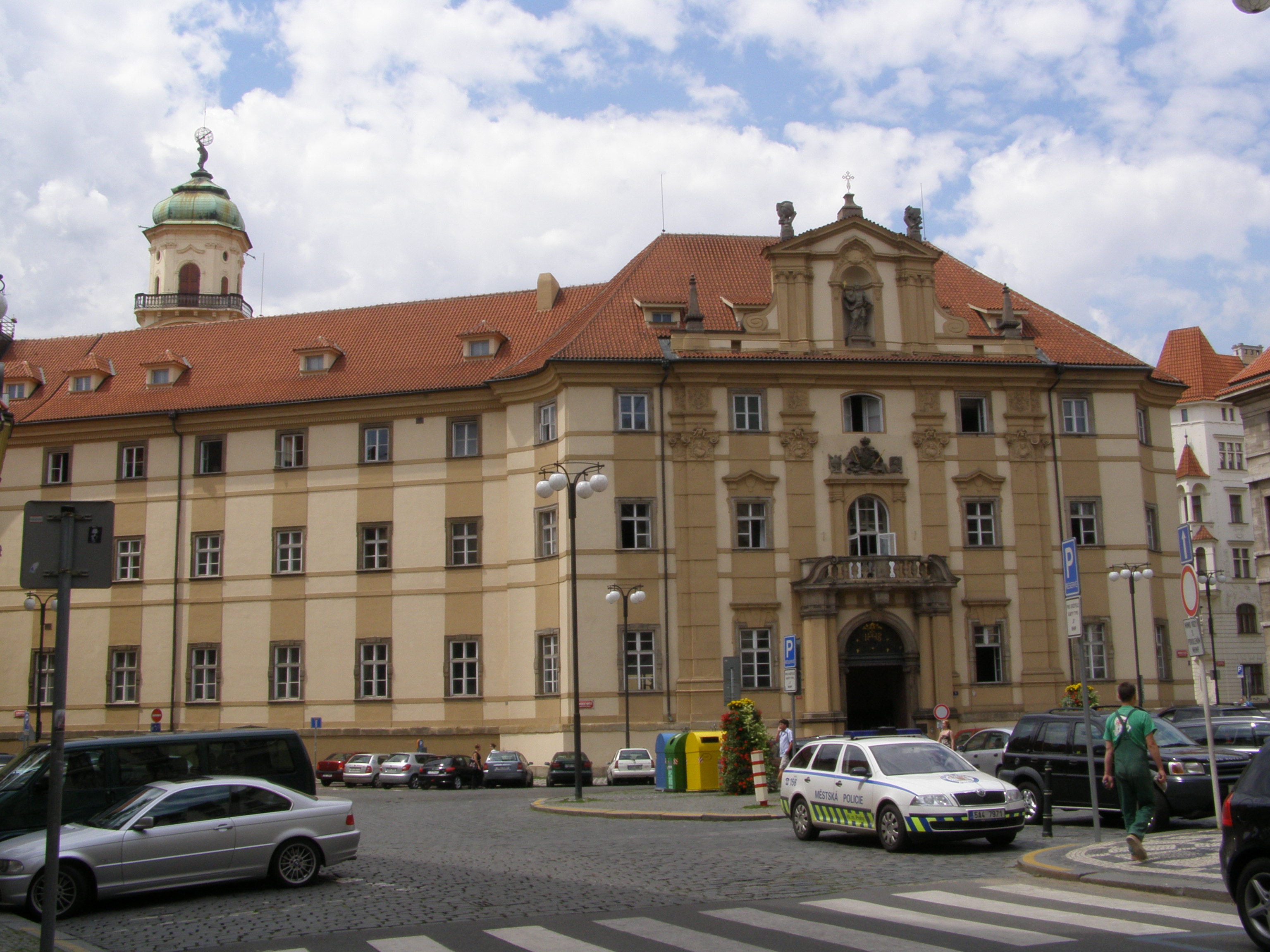 Prague, Clementinum